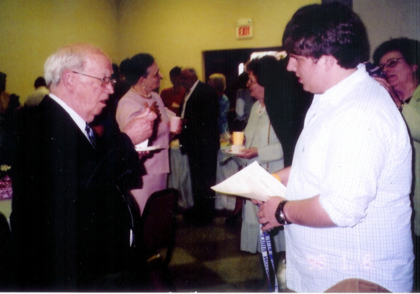 Take by user: Joeraybray May 2006, First Christian Church (Disciples of Christ) Knoxville, TN